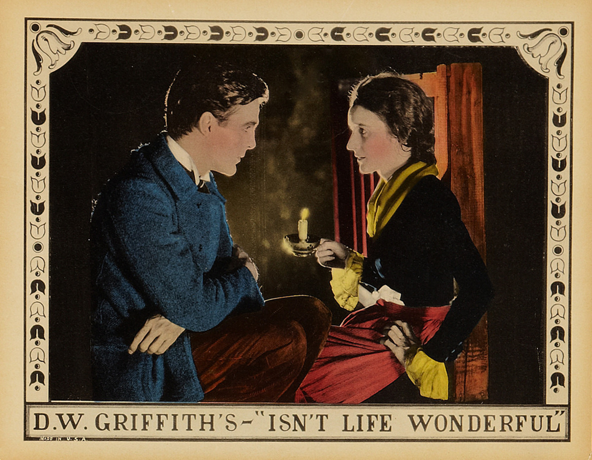 Isn't Life Wonderful? (1924) is a silent film directed by D. W. Griffith for his company D. W. Griffith Productions, and distributed by United Artists. This is a lobby card for the film with no copyright tags or claims, thus public domain.